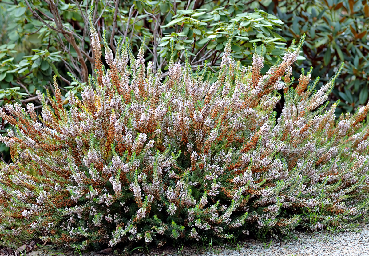 This image shows a Cornish heath plant (Erica vagans).